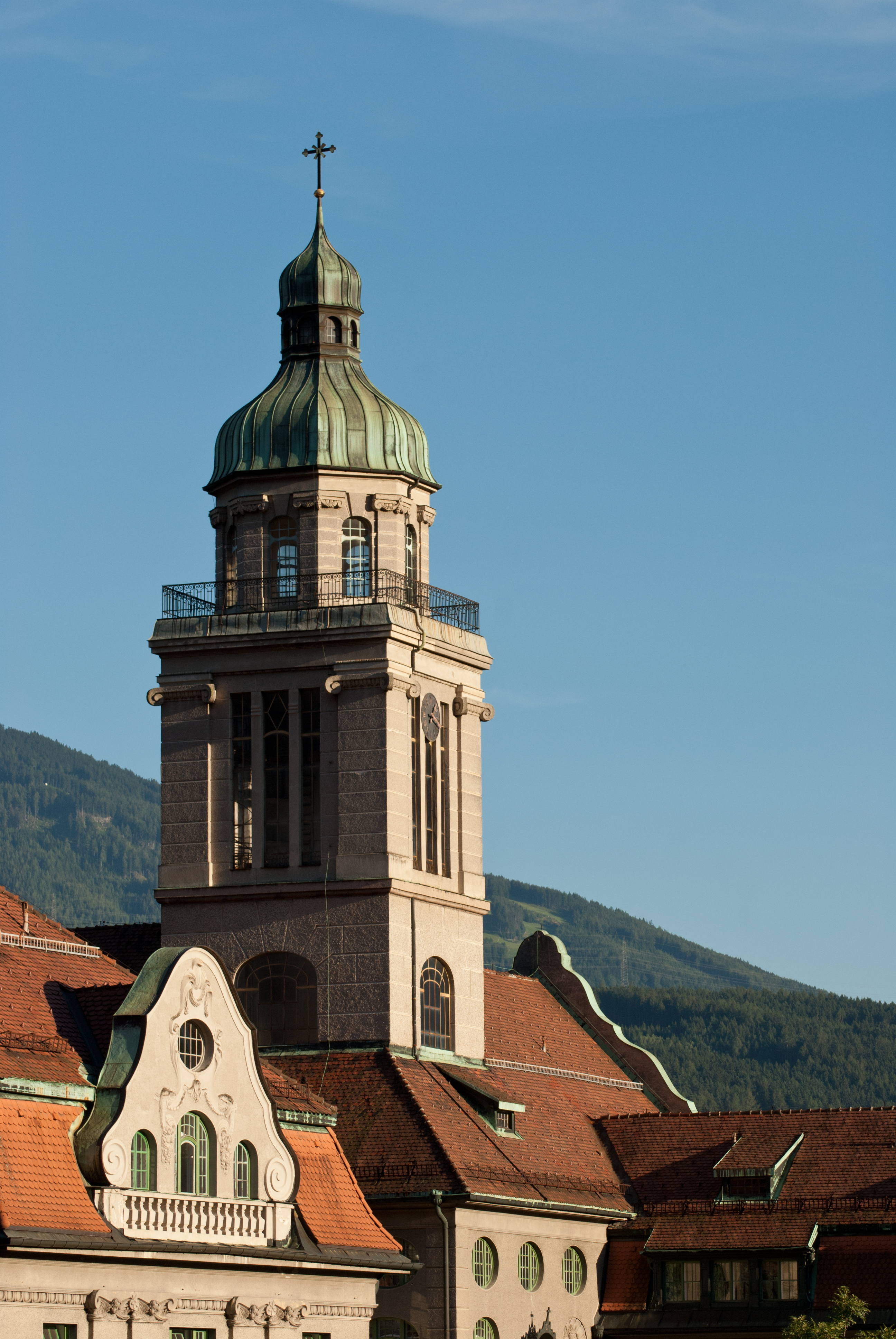 Canisianum Innsbruck from north